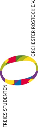 Logo of the Free Students Orchestra Rostock (F.S.O.R.), founded 2006